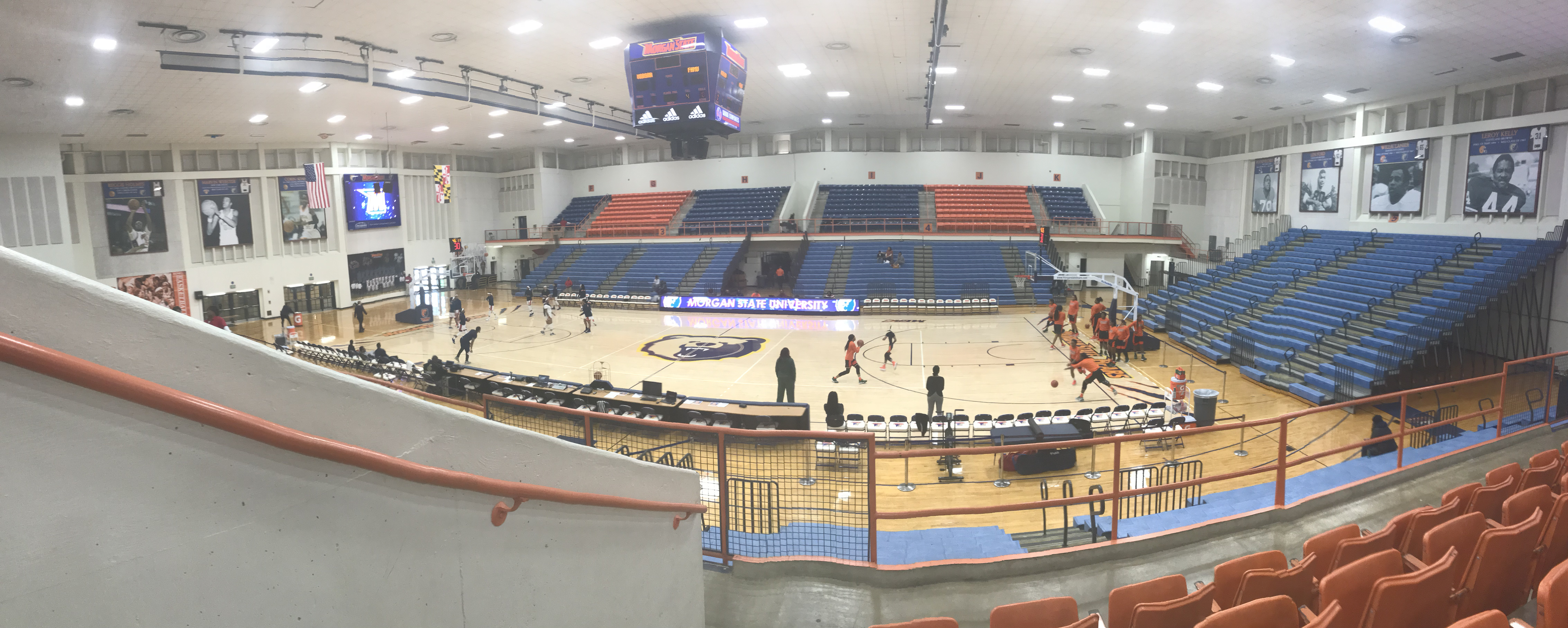 The interior of Hill Field House on the campus of Morgan State University in Baltimore, MD.